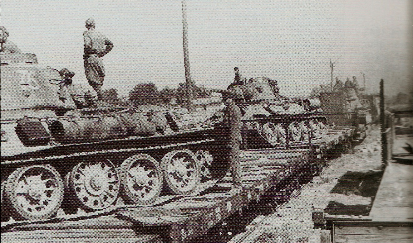 Soviet tanks in rumanian front (august 1944)